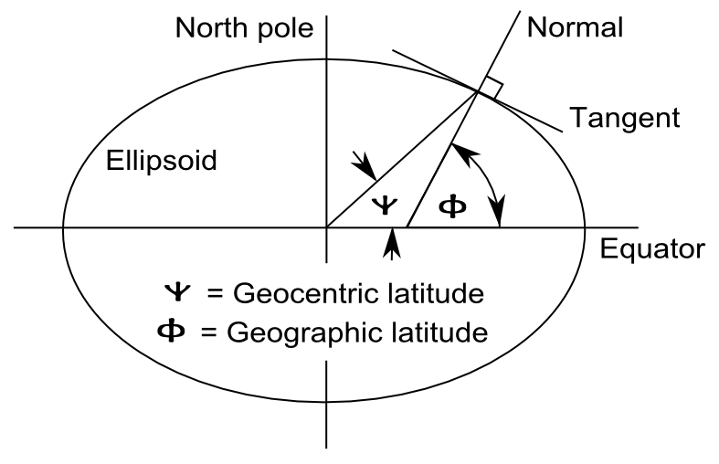 Illustration of geographic and geocentric latitudes